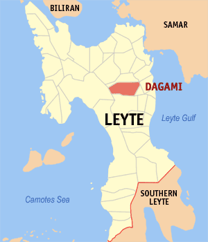 Map of Leyte showing the location of Dagami